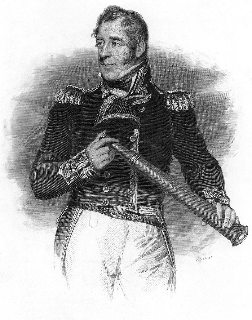 Engraving of Thomas Cochrane, 10th Earl of Dundonald, based on a painting by James Ramsay